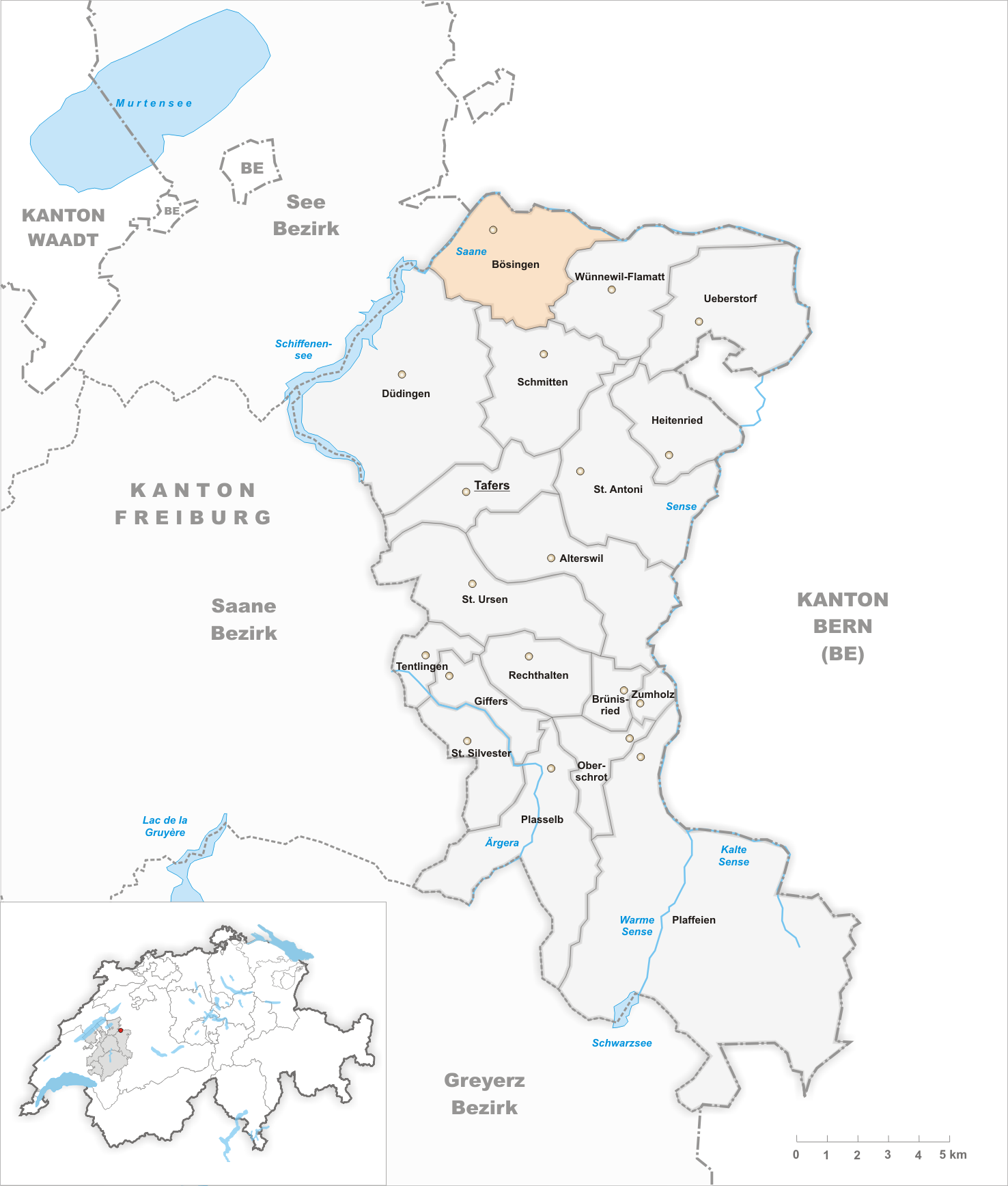 Municipality Bösingen